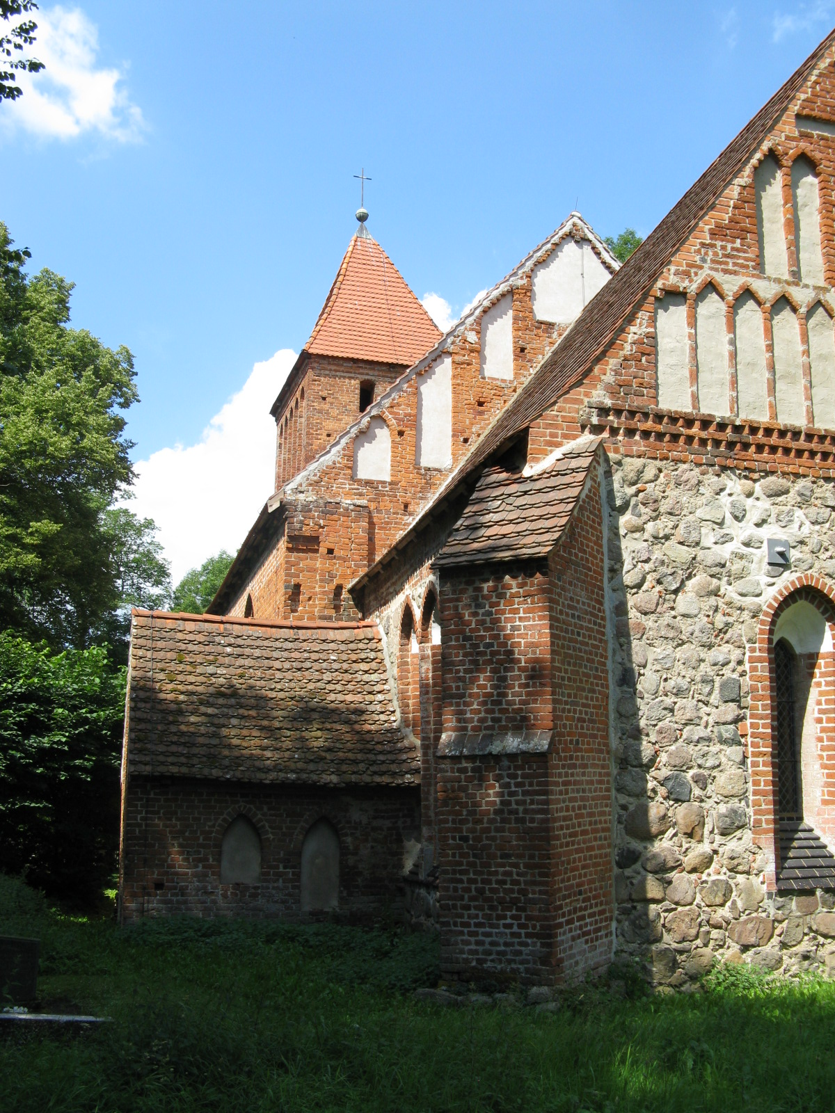 Church in Kirch Kogel, district Güstrow, Mecklenburg-Vorpommern, Germany